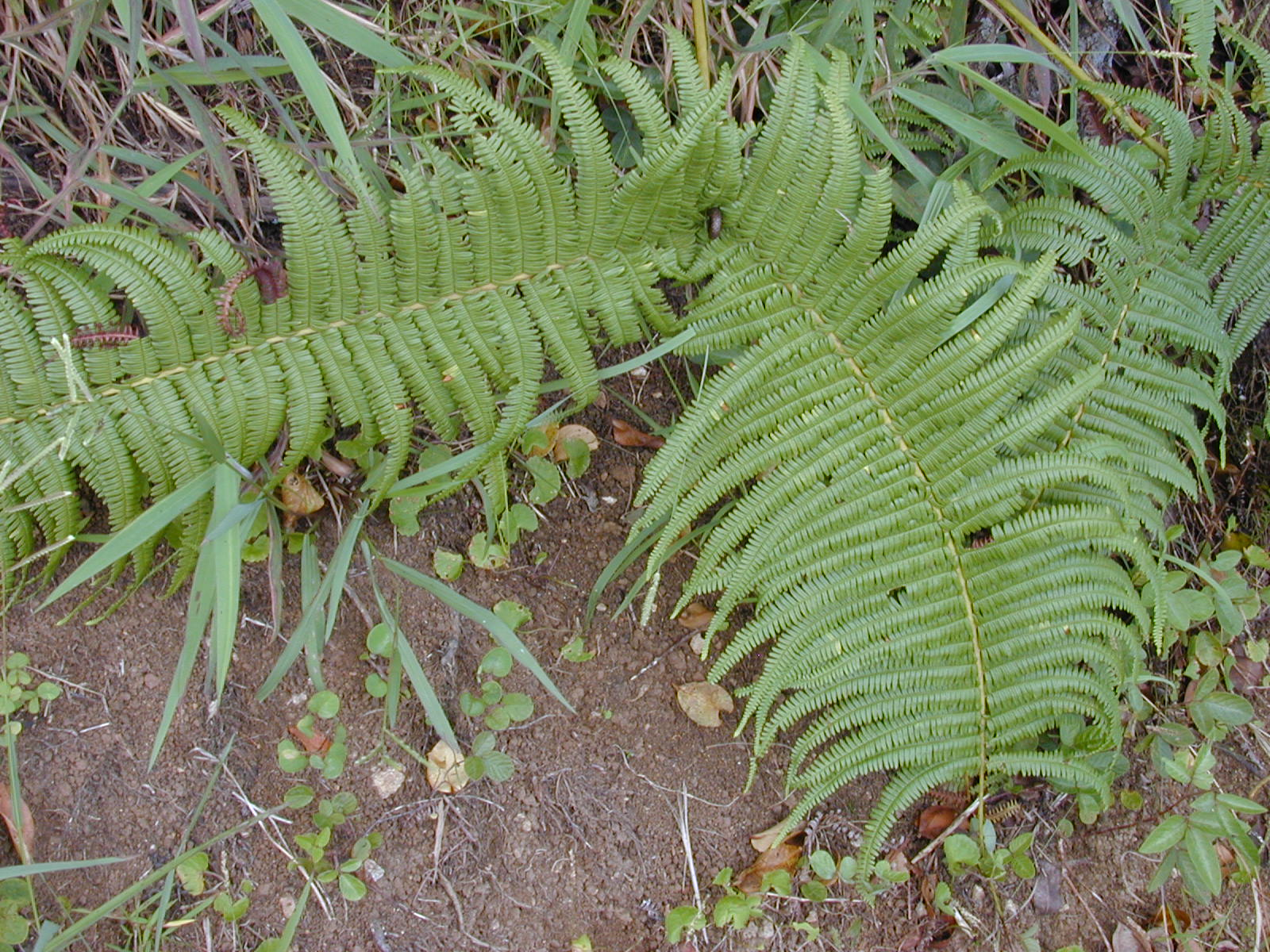 Diplopterygium pinnatum (Uluhe lau nui frond). Location: Maui, Waihee Ridge Trail